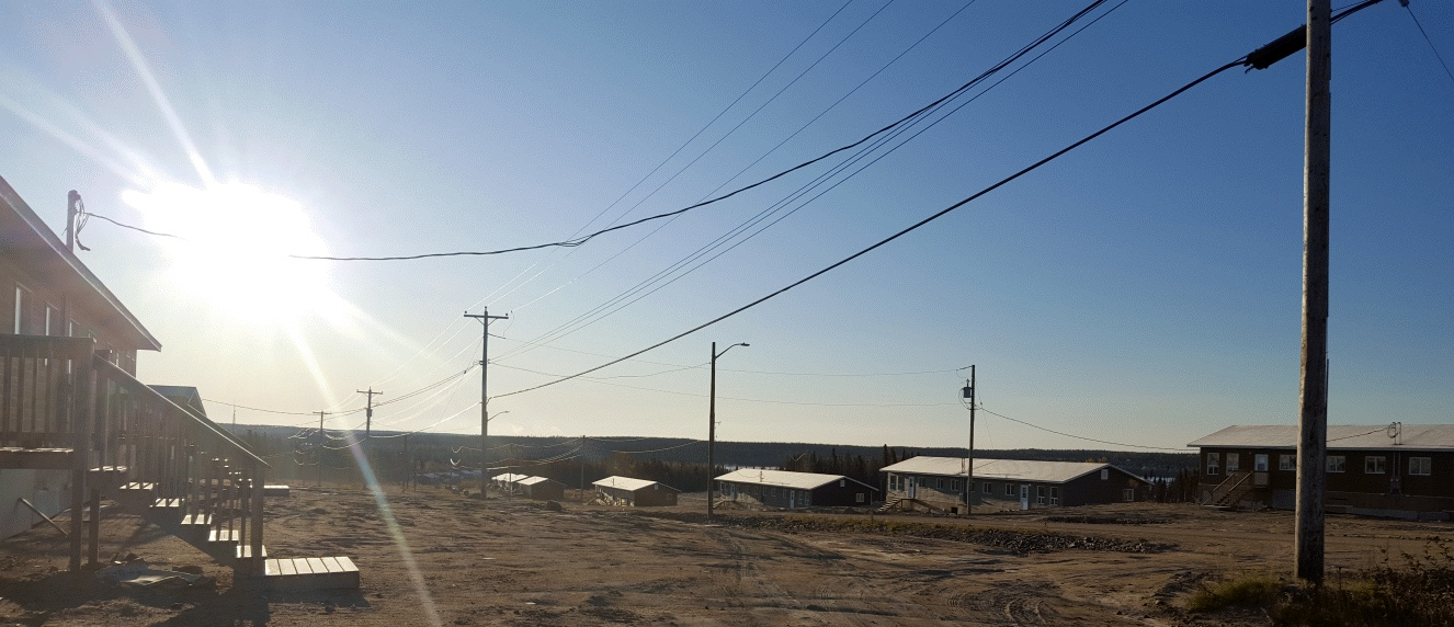 View in front of Band administration offices, of community homes at Black Sturgeon Falls Reserve - 30 KM east of Lynn Lake, MB